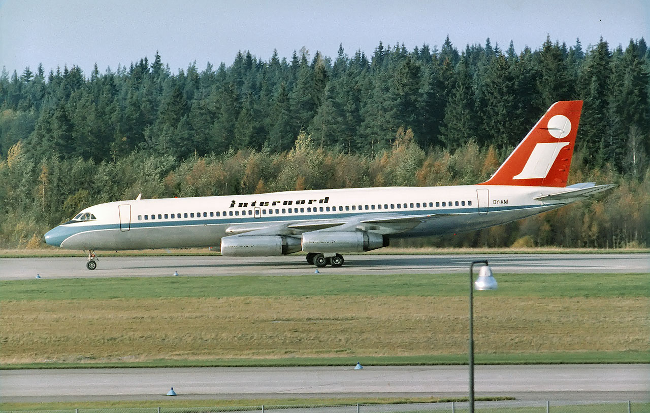 Internord Convair 990A (30A-5) OY-ANI at Stockholm-Arlanda Airport